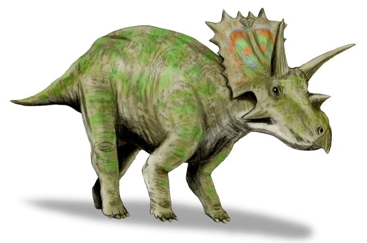 Anchiceratops ornatus, a ceratopsian from the Late Cretaceous of North America, pencil drawing, digital coloring